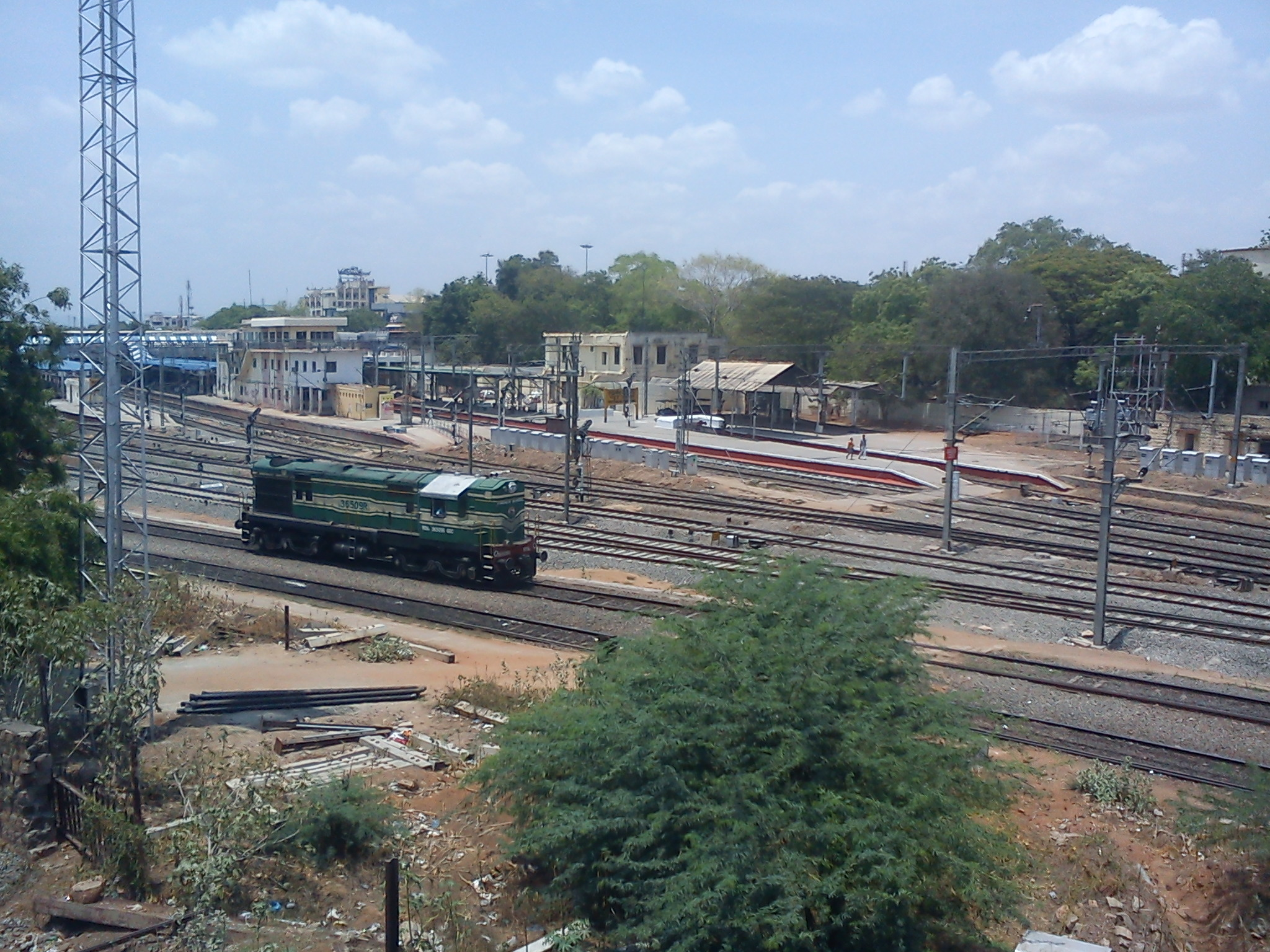 MADURAI RAILWAY STATION VIEW